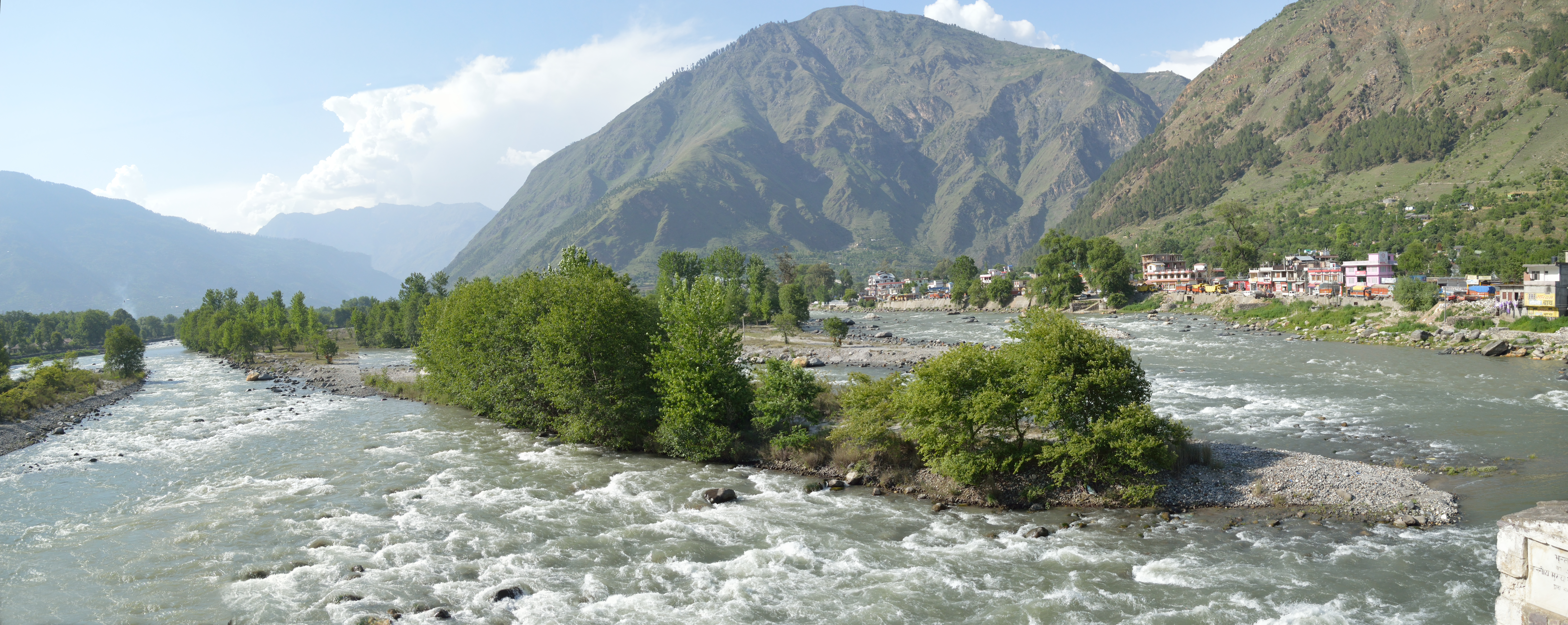 Photographed in Himachal Pradesh.